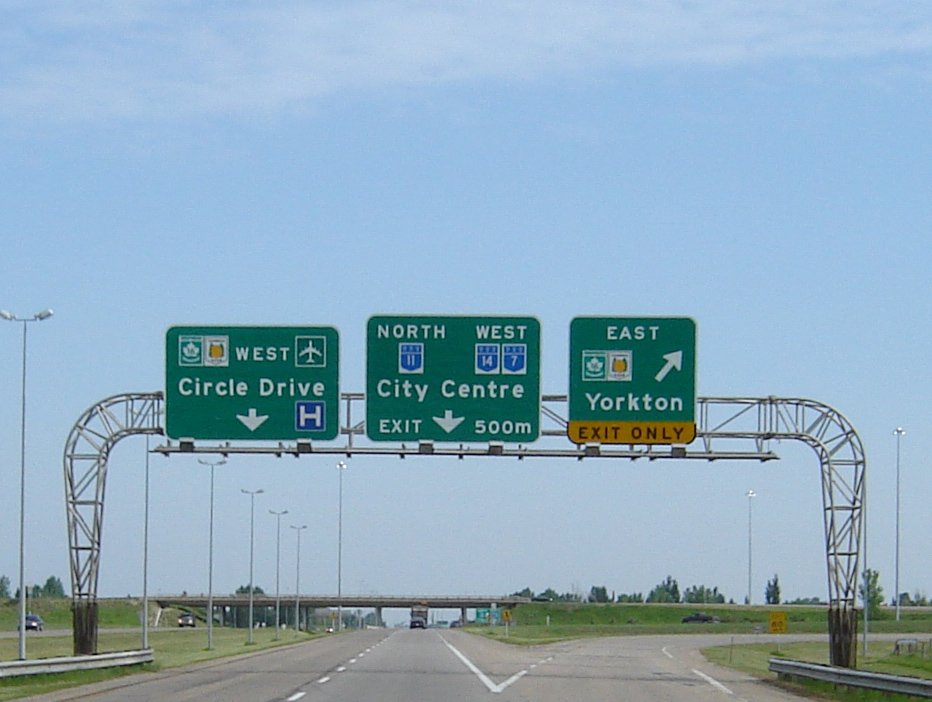 Circle Drive, Saskatchewan Highway 16 Yellowhead West, Airport, Hospital and Saskatchewan Highway 11 North, City Centre, Saskatchewan Highway 14, Saskatchewan Highway 7 West, Exit 500 M, and East, Saskatchewan Highway 16 Yellowhead East, Yorkton Exit Only Photo taken from Saskatchewan Highway 11 at Saskatoon entrance.